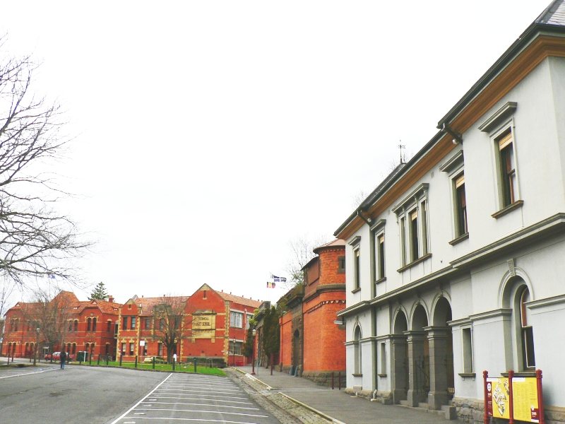 Heritage streetscapes at the Ballarat School of Mines and Industry, University of Ballarat.